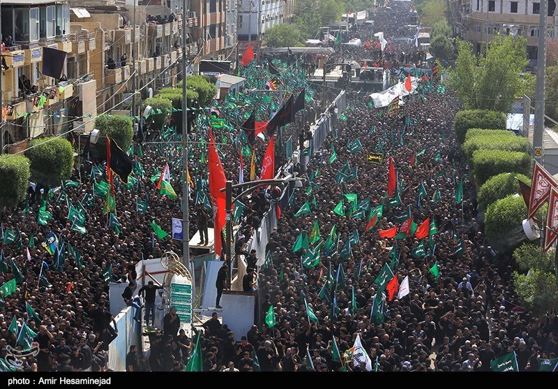 Karbala City